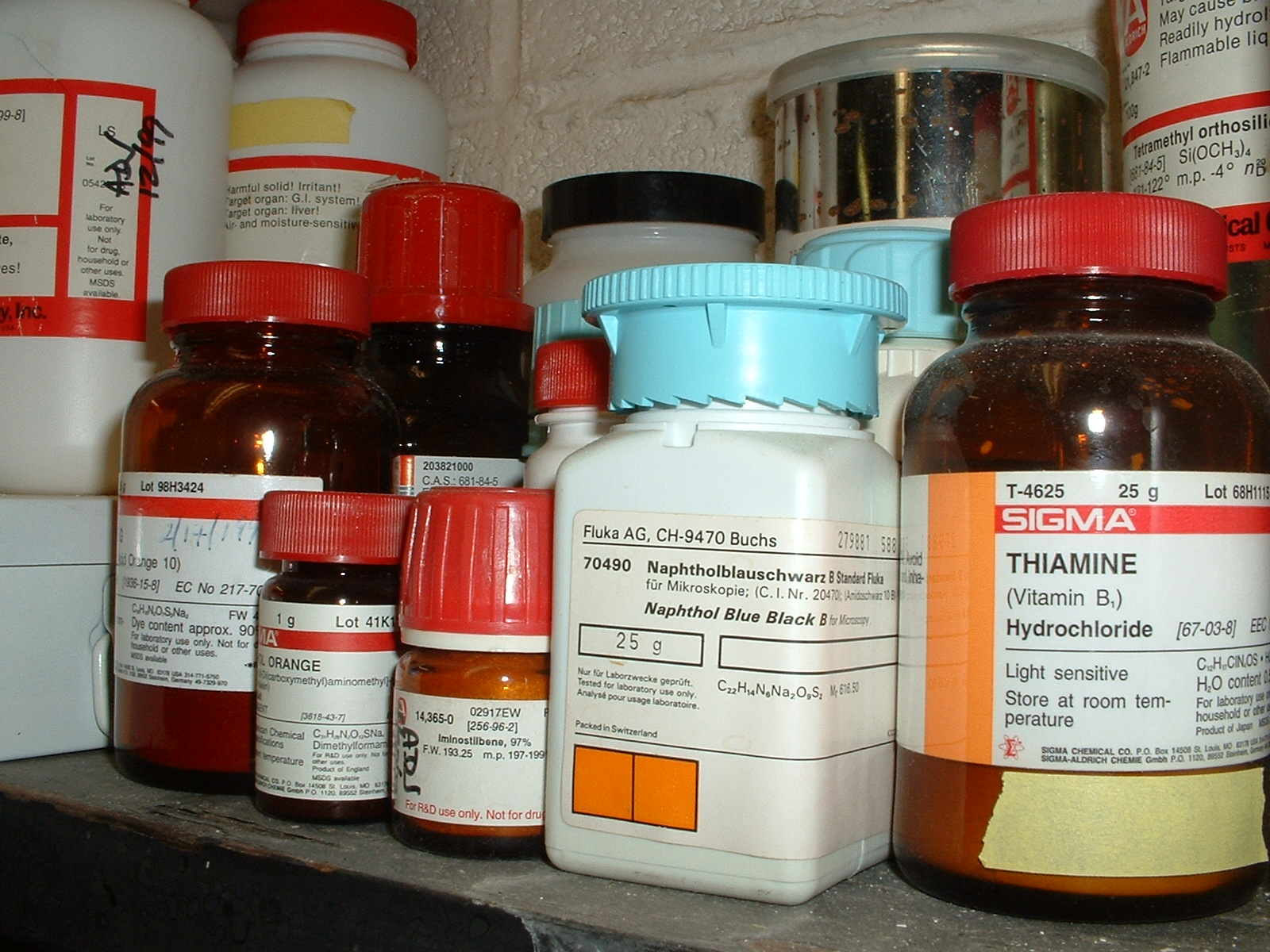 Chemicals